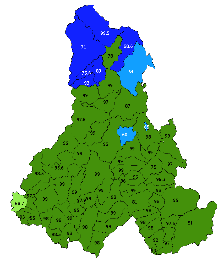 Ethnic map of Harghita County. Source for ethnic composition of settlements: Census 2002